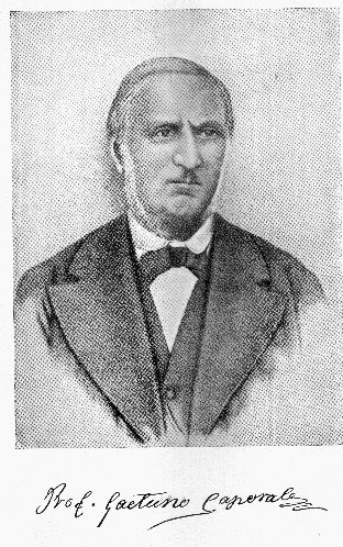 Gaetano Caporale (1815–1899), Italian historian.